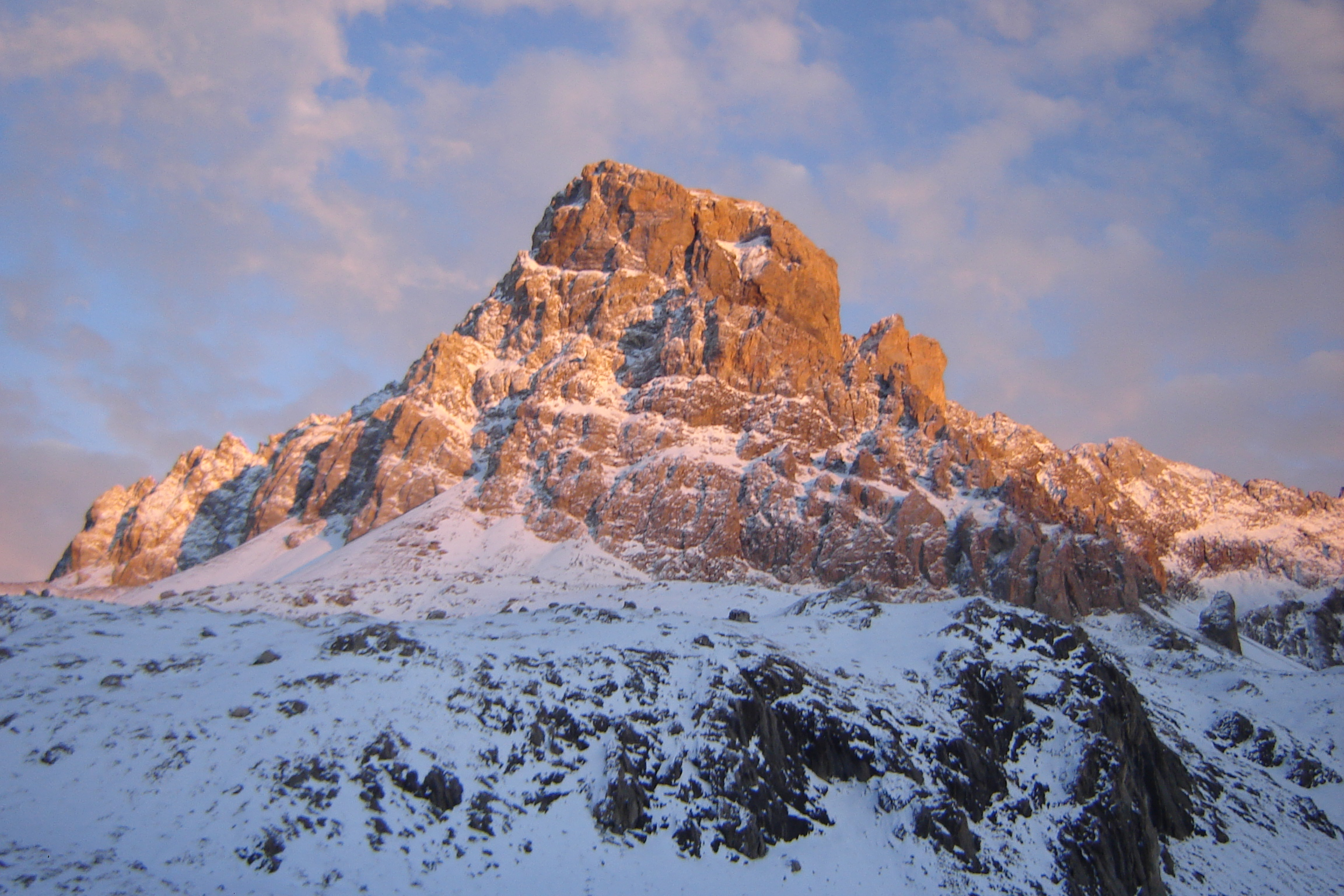 Brec de Chambeyron at sunset